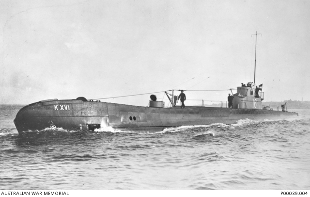 The Dutch submarine HNMS K-XVI on the surface in Netherlands East Indies (NEI) waters before the outbreak of the Second World War. This submarine was successful in sinking the Japanese destroyer Sagiri off the coast of Borneo, on 24 December 1941. However, the following day, K-XVI was itself torpedoed and sunk with all hands near Kuching, off the coast of Borneo by the Japanese submarine I-66.